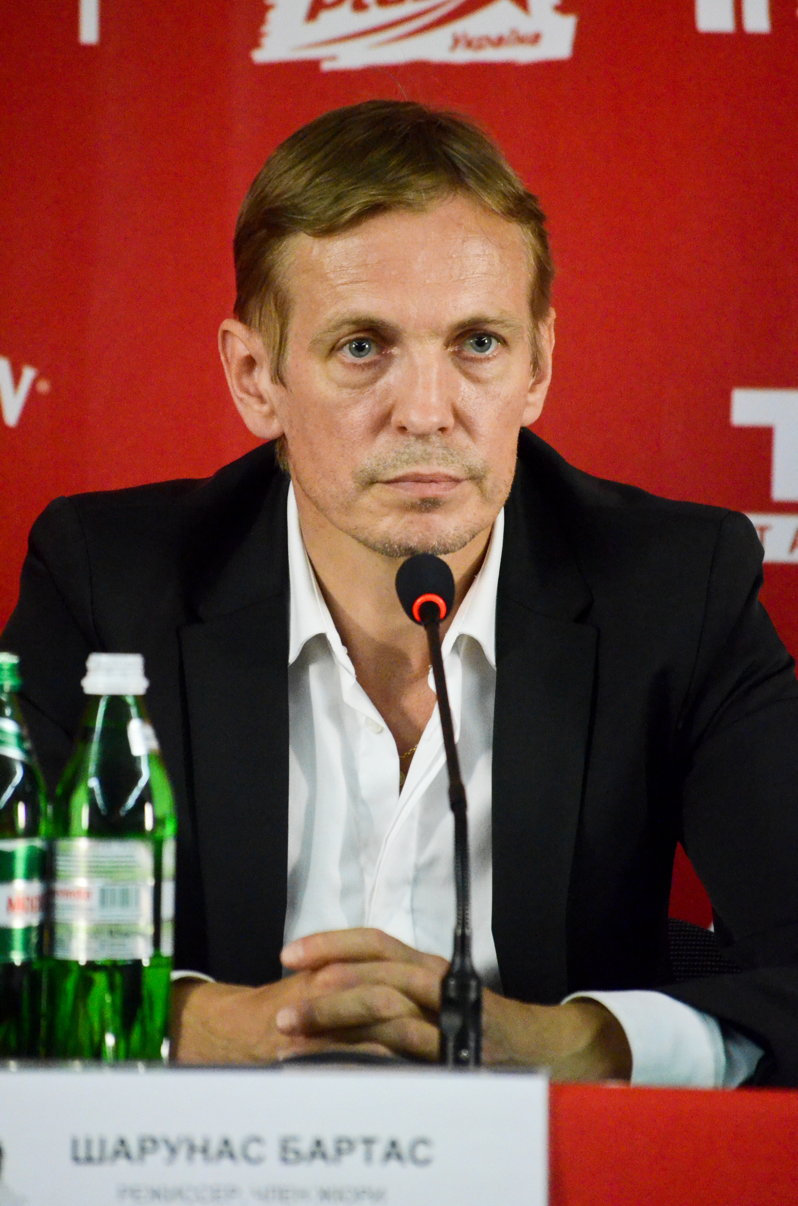 Lithuanian film director Šarūnas Bartas at the 6th Odessa International Film Festival.